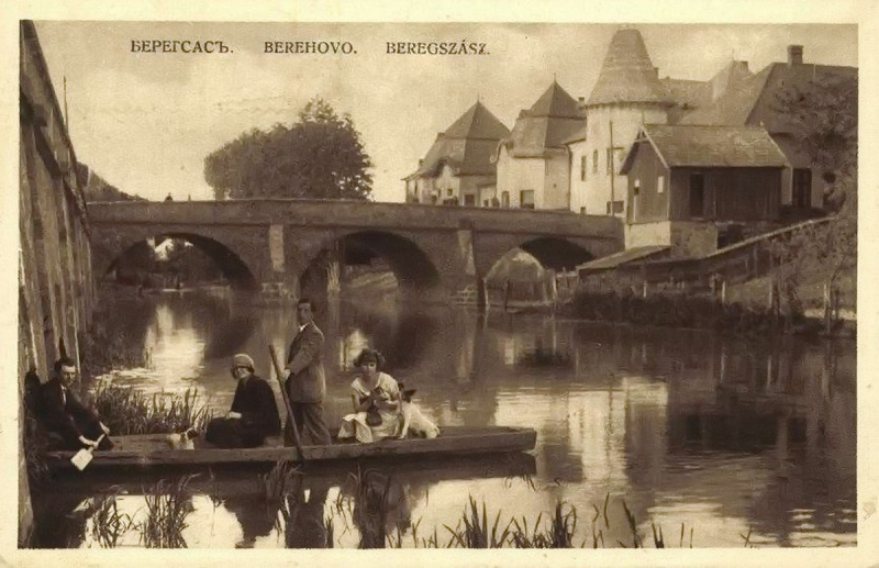 River in Berehove